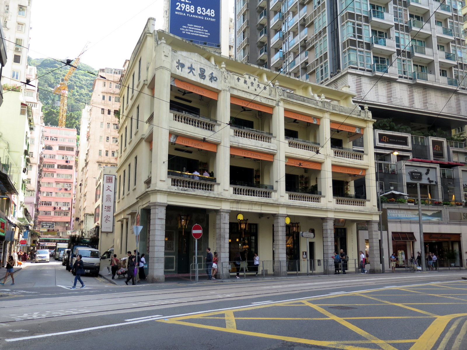 Wo Cheong Pawn